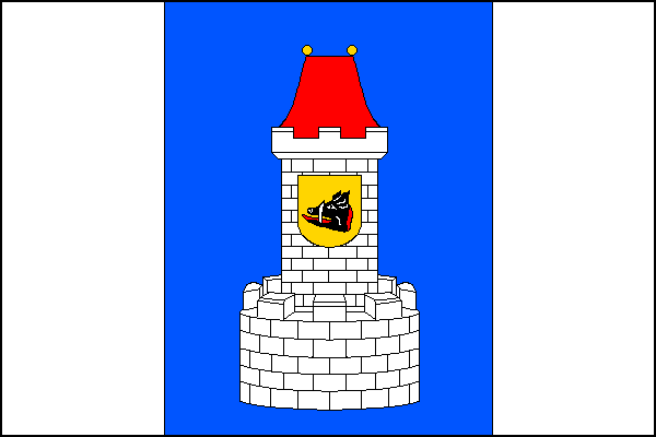 Municipal flag of Rožmitál pod Třemšínem , District Příbram, Czech Republic